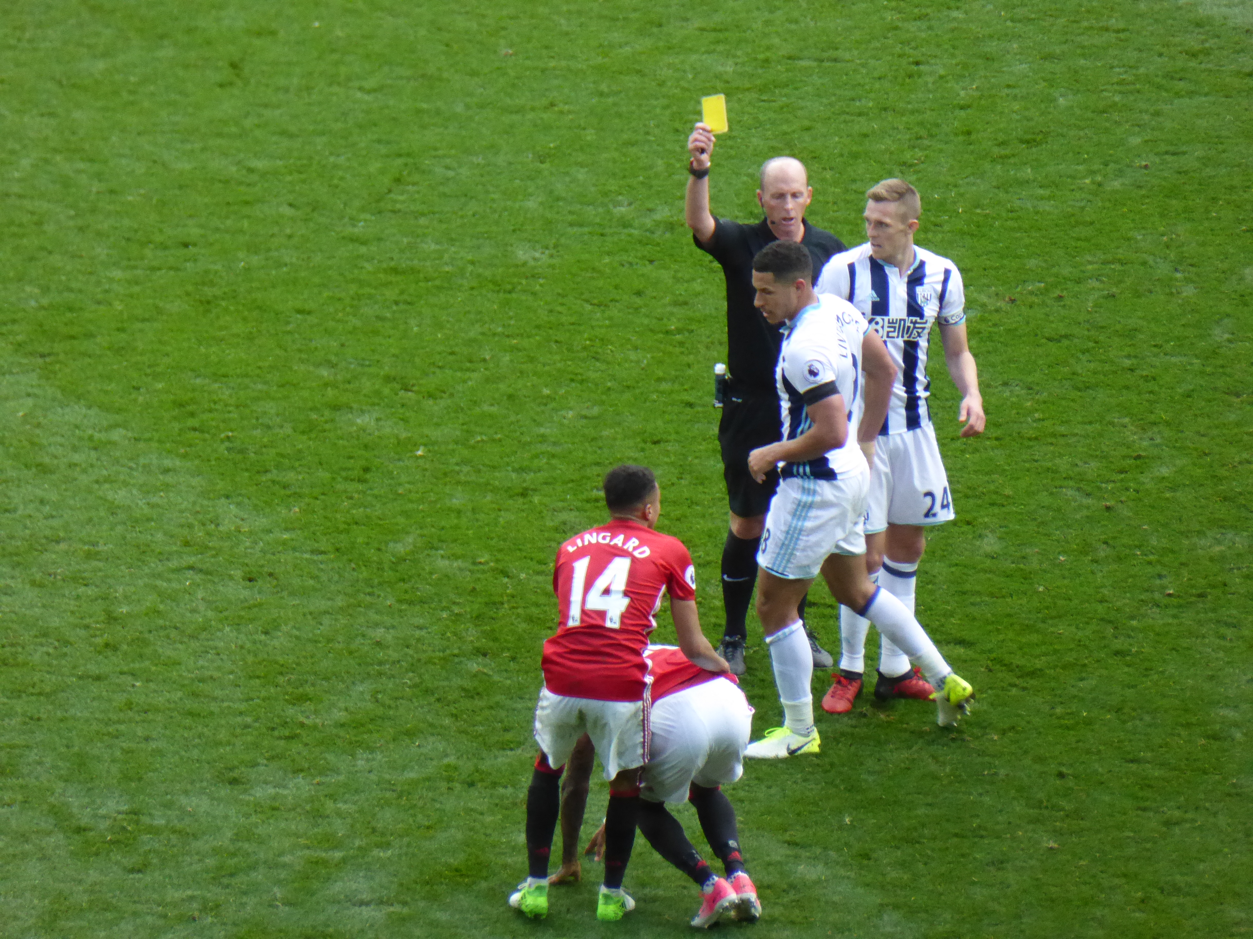 Manchester United v West Bromwich Albion (0-0), Premier League, Old Trafford, Manchester, Greater Manchester, England, 1 April 2017